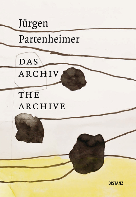 Book cover